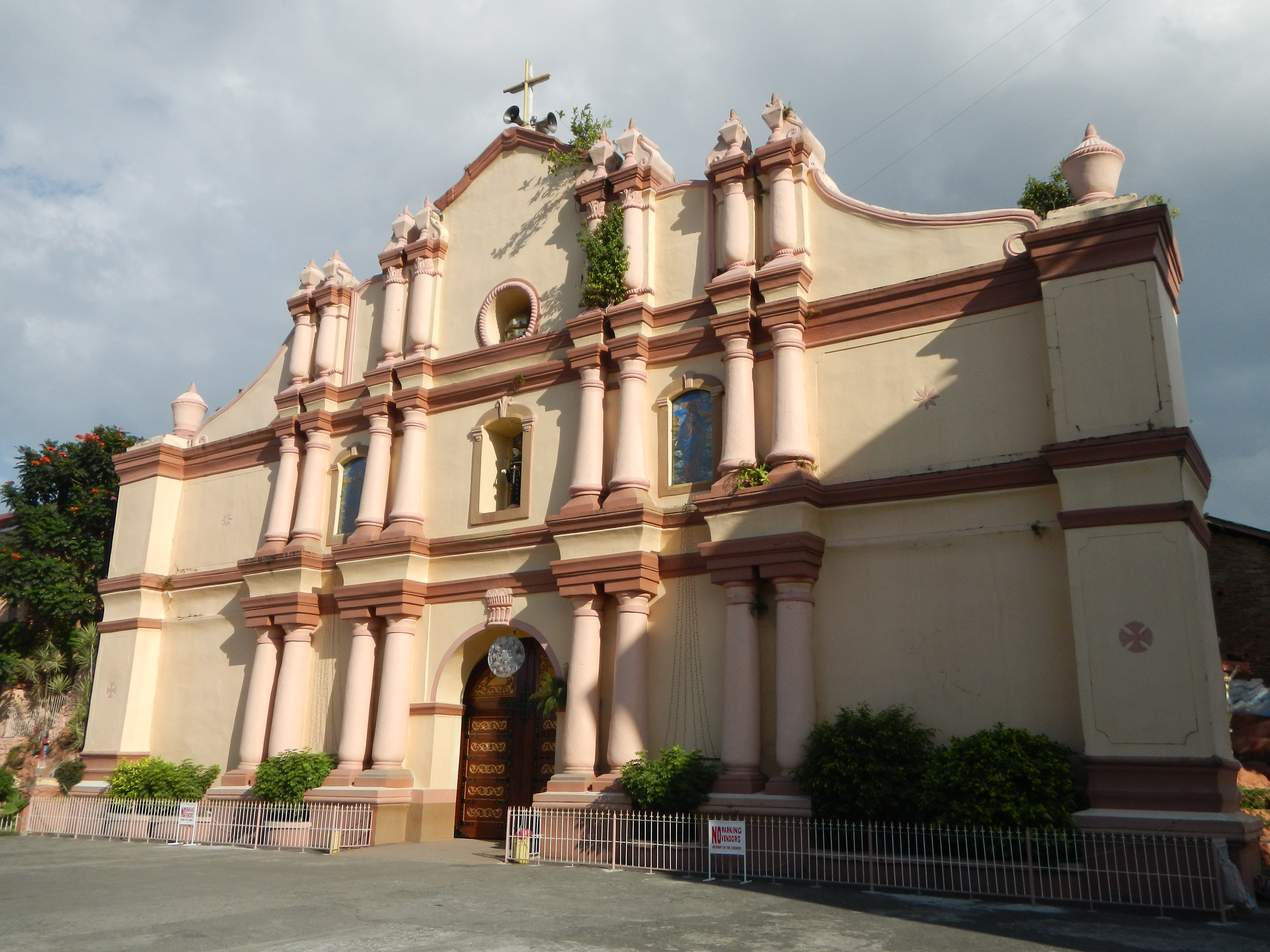 Upload Wizard photos of -- (general description of landmarks, town, church) - Saint Nicholas of Tolentino of Balaoan - Balaoan, La Union[1] - in front of the Giant Official Seal and Logo of the Town in front of the Balaoan Farmers Civic Center. of Balaoan beside the being constructed New Town Hall of Balaoan - of the Vicariate of St. Nicholas Vicar Forane: Father Arnulfo T. Tagorda Balaoan F-1587 2517 La Union, Philippines Titular: St. Nicholas of Tolentino, September 10 Parish Priest: Father Mario R. Valdez - the Church belongs to the Roman Catholic Diocese of San Fernando de La Union [2] - where the Bus Stop, Waiting Shed, Rang-Ay Bank branch is located - along the along the National Highway or Daang Maharlika or Pan-Philippine Highway.